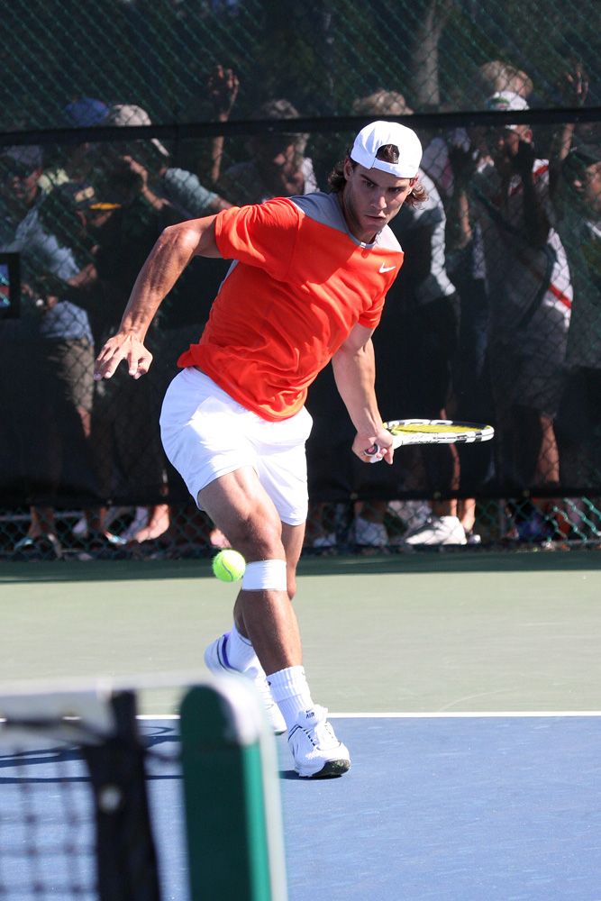 Rafael Nadal Practice Court - 2008 Western & Southern Financial Group Masters Mason, Ohio